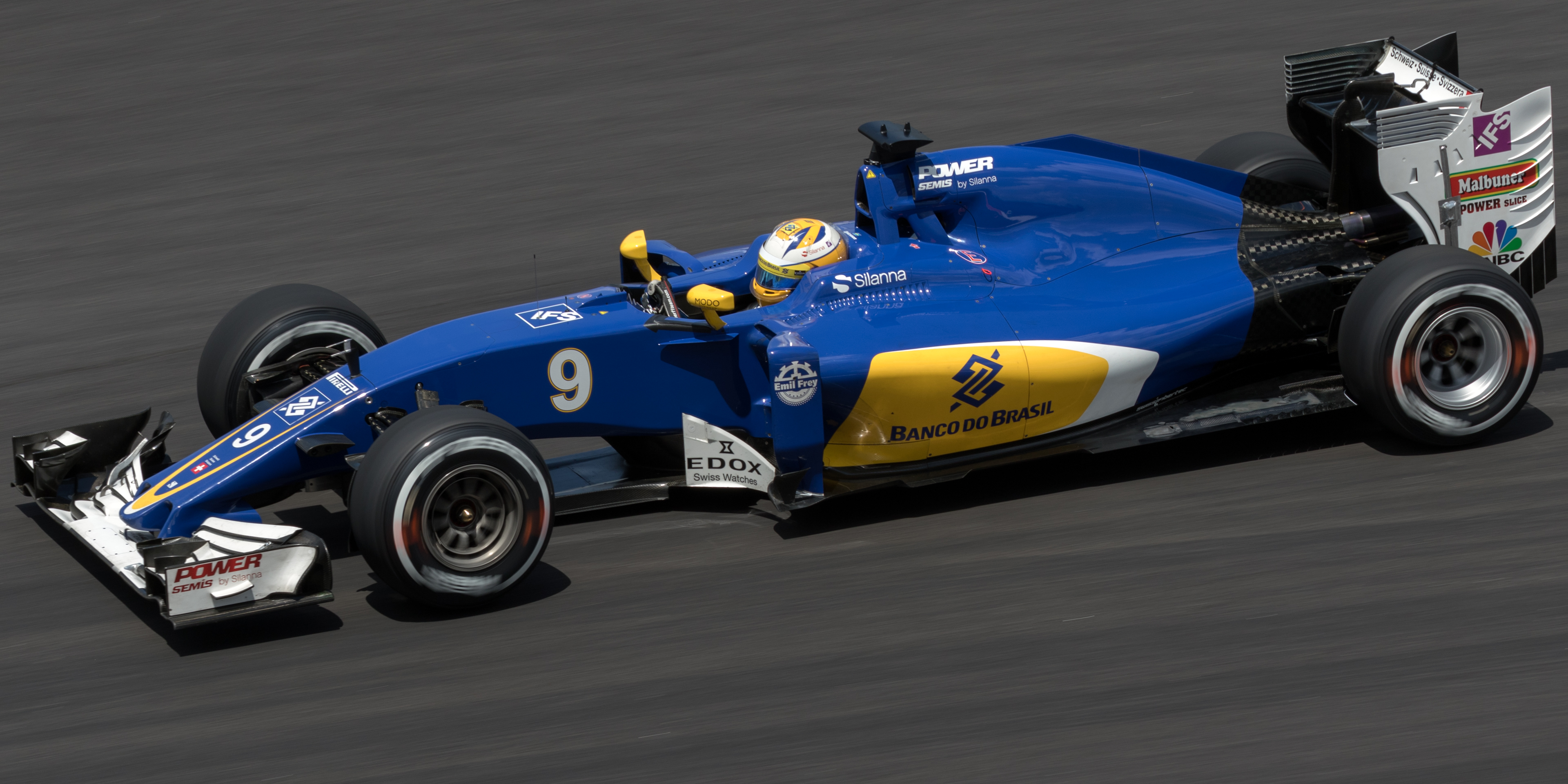 Formula One 2016 Rd.16 Malaysian GP: Marcus Ericsson (Sauber)